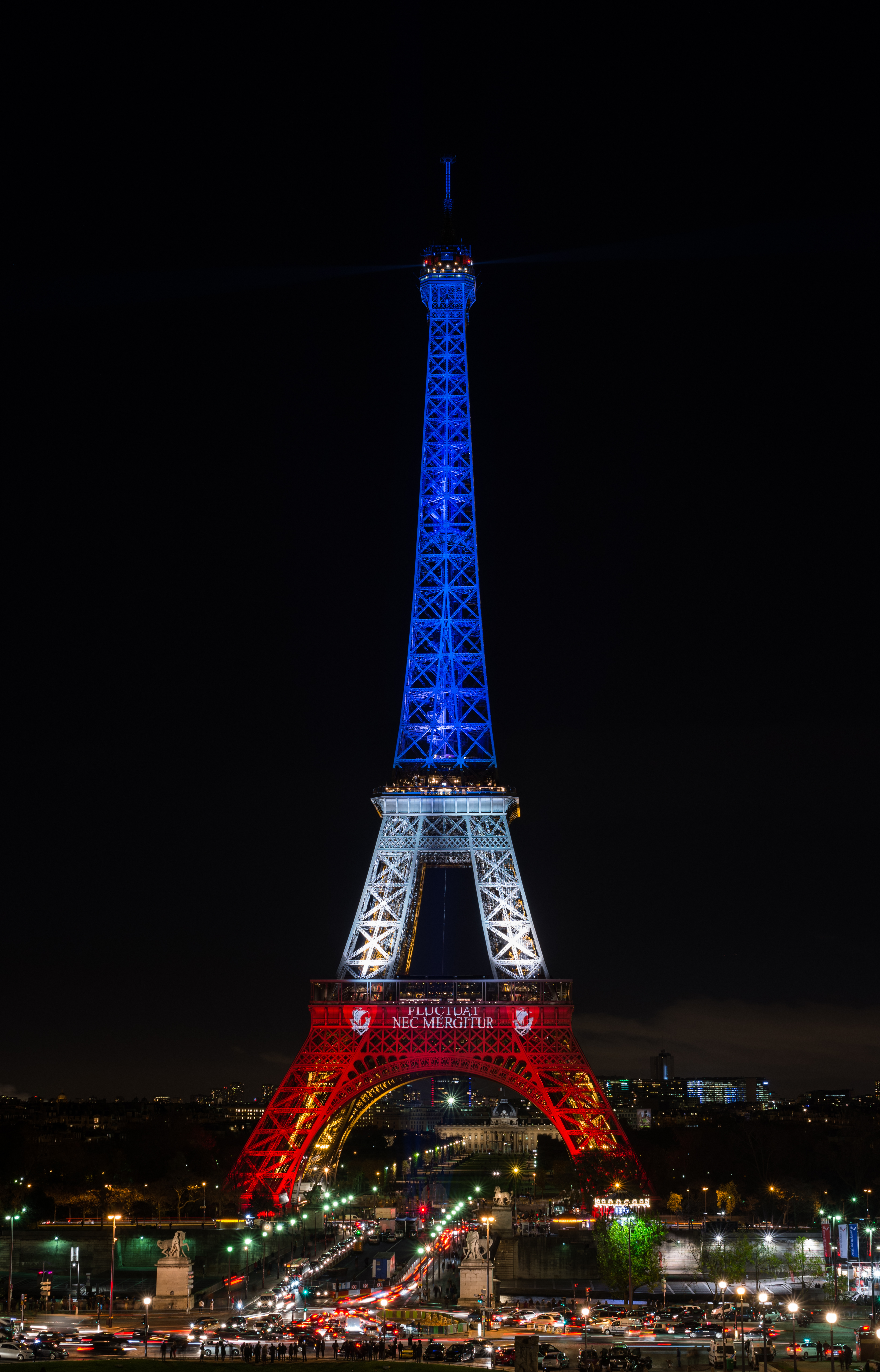 Because of the attack in Paris, the eiffel tower is lit up in the colours of the French flag, and the motto of the city "Fluctuat nec Mergitur" - taken with the sigma 35mm f1.4 Art - a tripod with ball head, - manual focusing in live view, with 4x magnification - remote shutter release - Mirror up mode (Mirror lock-up)